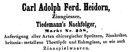 Advertising for Carl Adolph Ferdinand Heidorn's pewter workshop